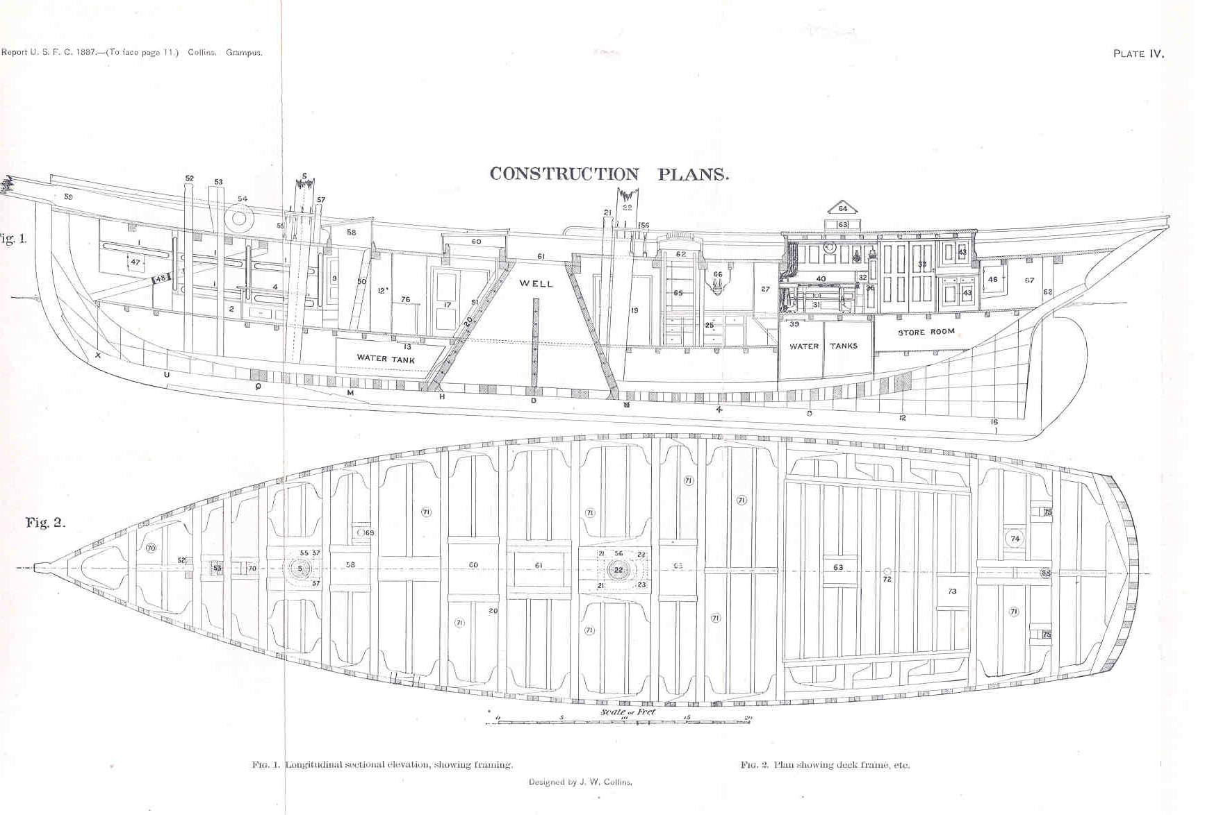 Grampus Construction Plans Subject: Grampus (Schooner), Schooners--Design and construction, Naval architecture Tag: Vessels